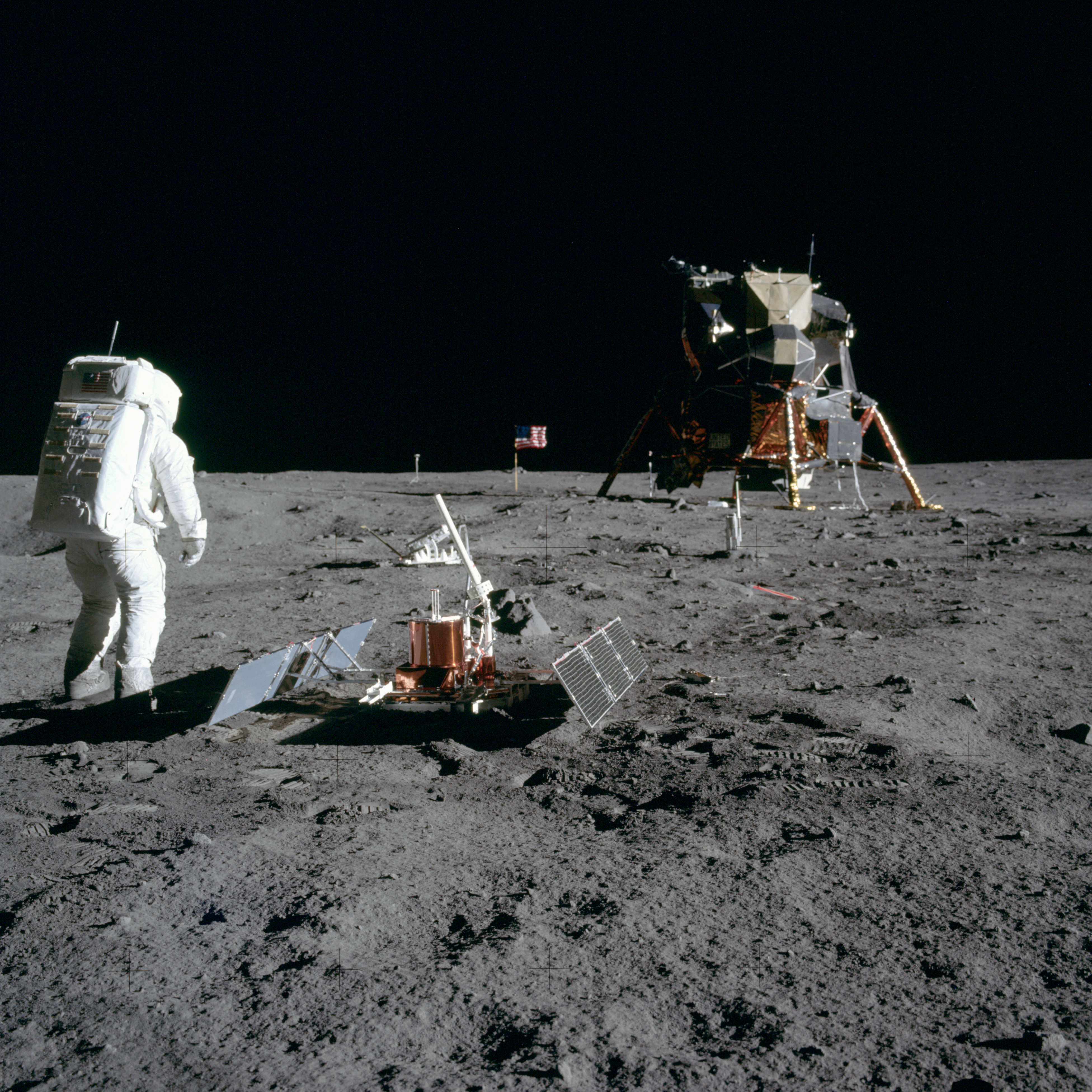 Astronaut Edwin E."Buzz" Aldrin Jr., Lunar Module pilot, is photographed during the Apollo 11 extravehicular activity on the Moon. He has just deployed the Early Apollo Scientific Experiments Package (EASEP). In the foreground is the Passive Seismic Experiment Package (PSEP); beyond it is the Laser Ranging Retro-Reflector (LR-3); in the center background is the United States flag; in the left background is the black and white lunar surface television camera; in the far right background is the Lunar Module "Eagle". Astronaut Neil A. Armstrong, commander, took this photograph with a 70mm lunar surface camera.